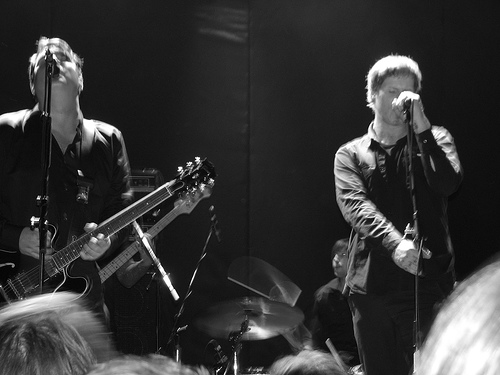 Image of The Gutter Twins performing their inaugural U.S. show, Feb. 14, 2008